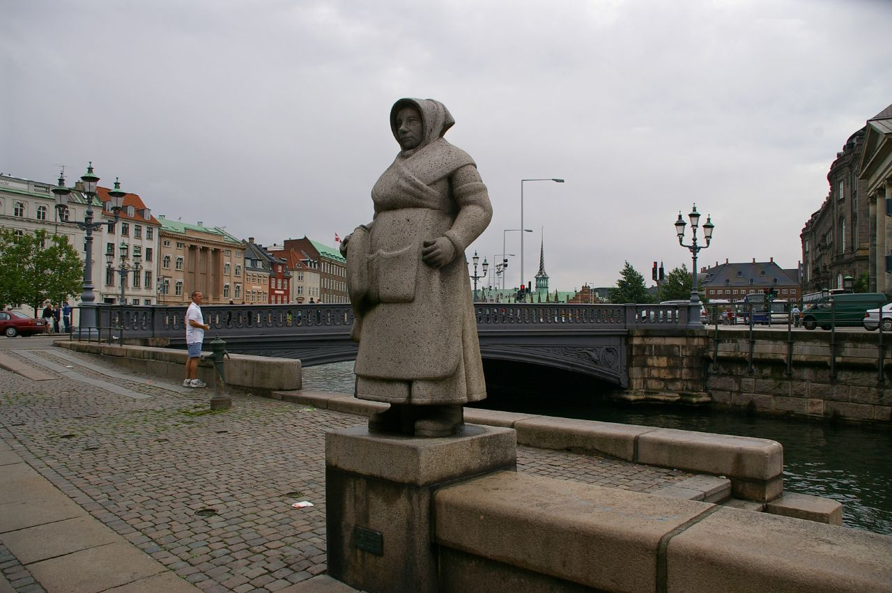 View from Gammel Strand towards Højbro and Slotsholmens Kanal in Copenhagen, Denmark